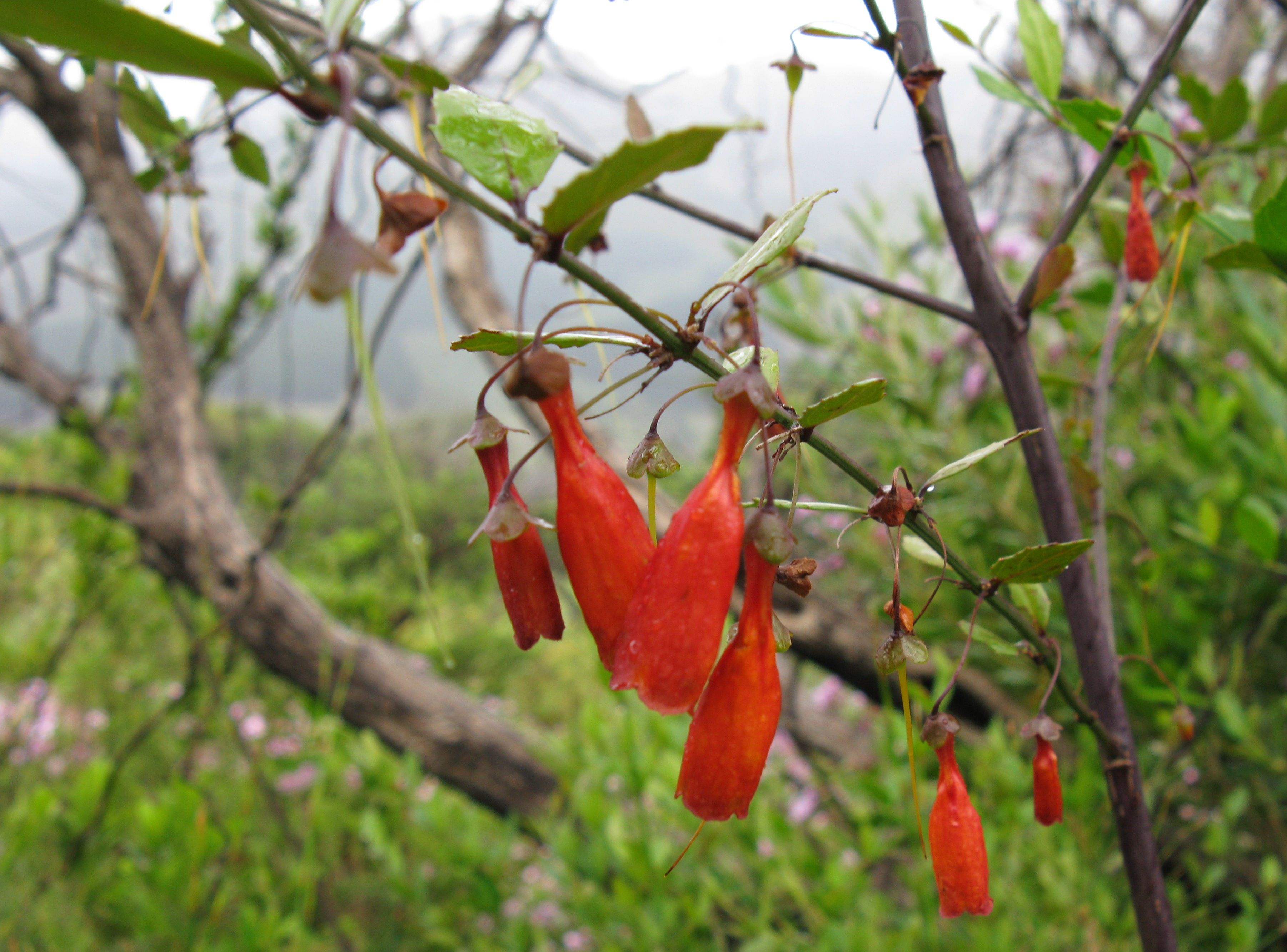 Halleria elliptica Thunb. Scrophulariaceae, one of three species found in South Africa (10 in Africa and Middle East).